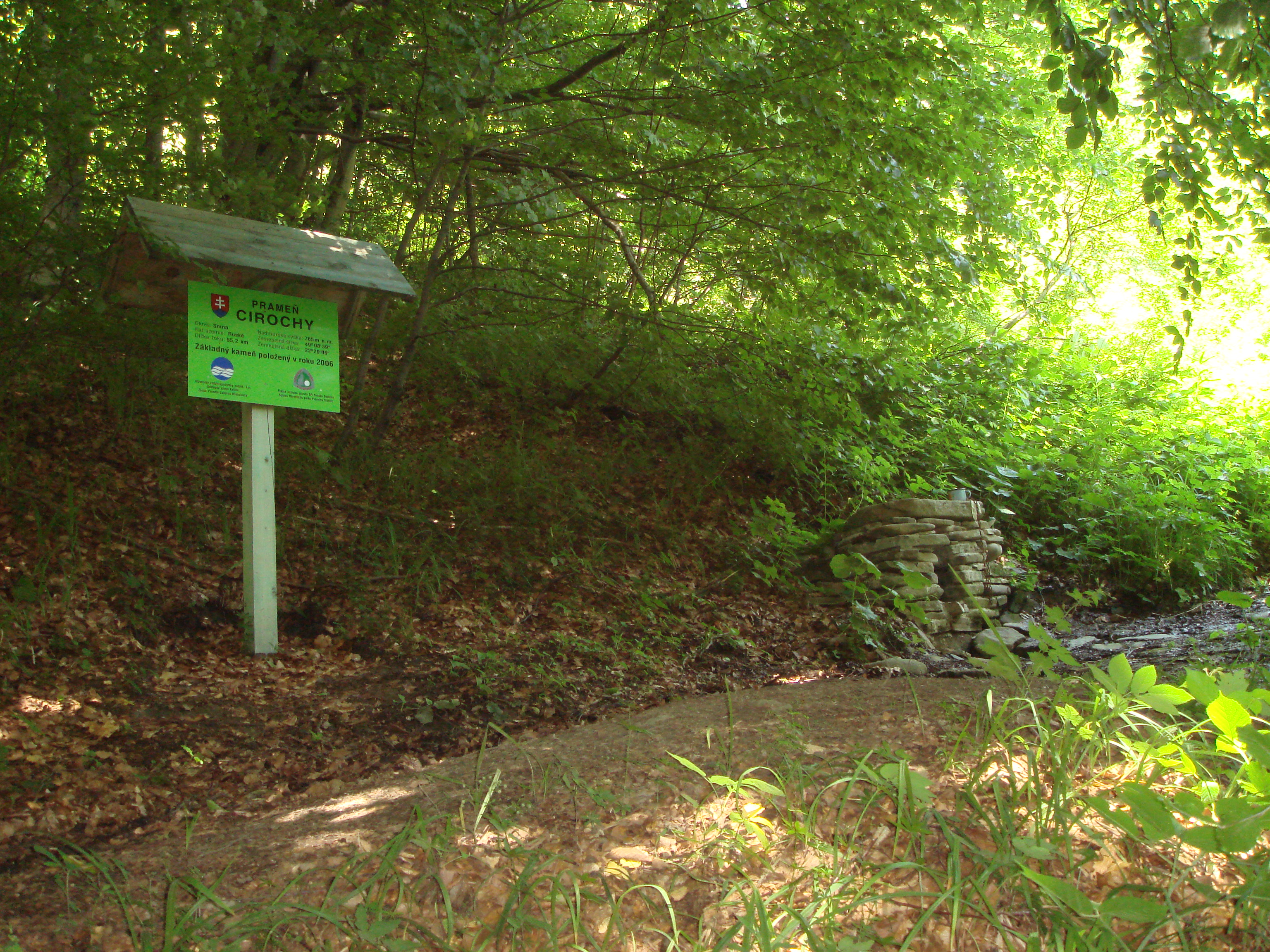 Spring of the Cirocha River (Prešov Region, Slovakia).